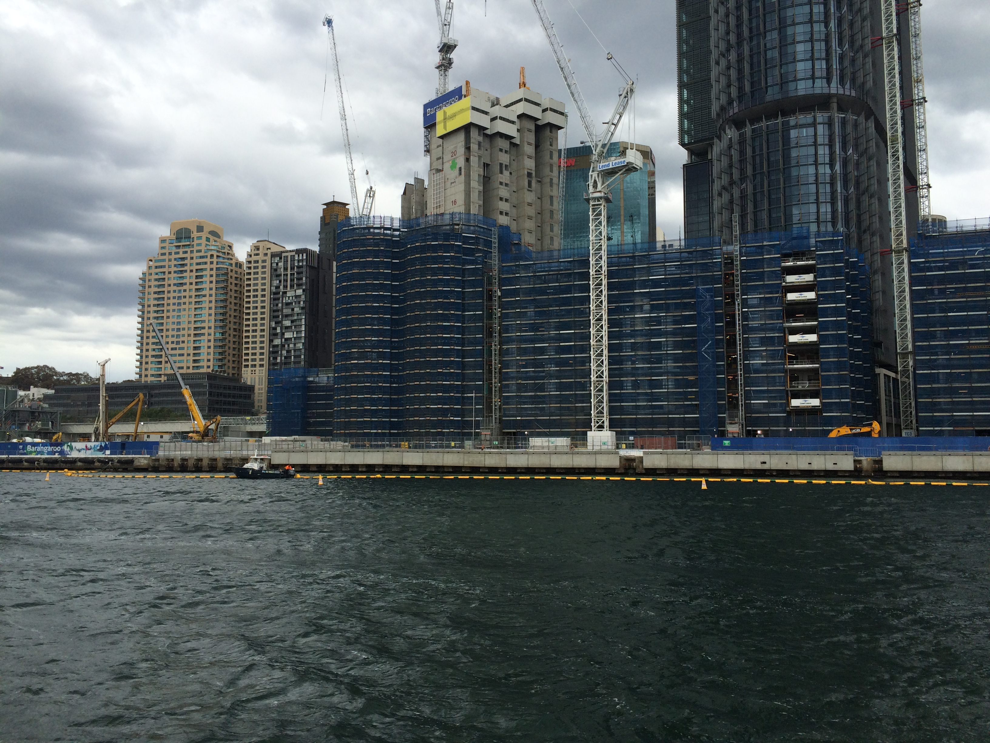 A view of pre-construction efforts in the planning of a new wharf at Barangaroo South. The area in which the wharf is to be constructed is surrounded by yellow water barriers, marking the site of construction.